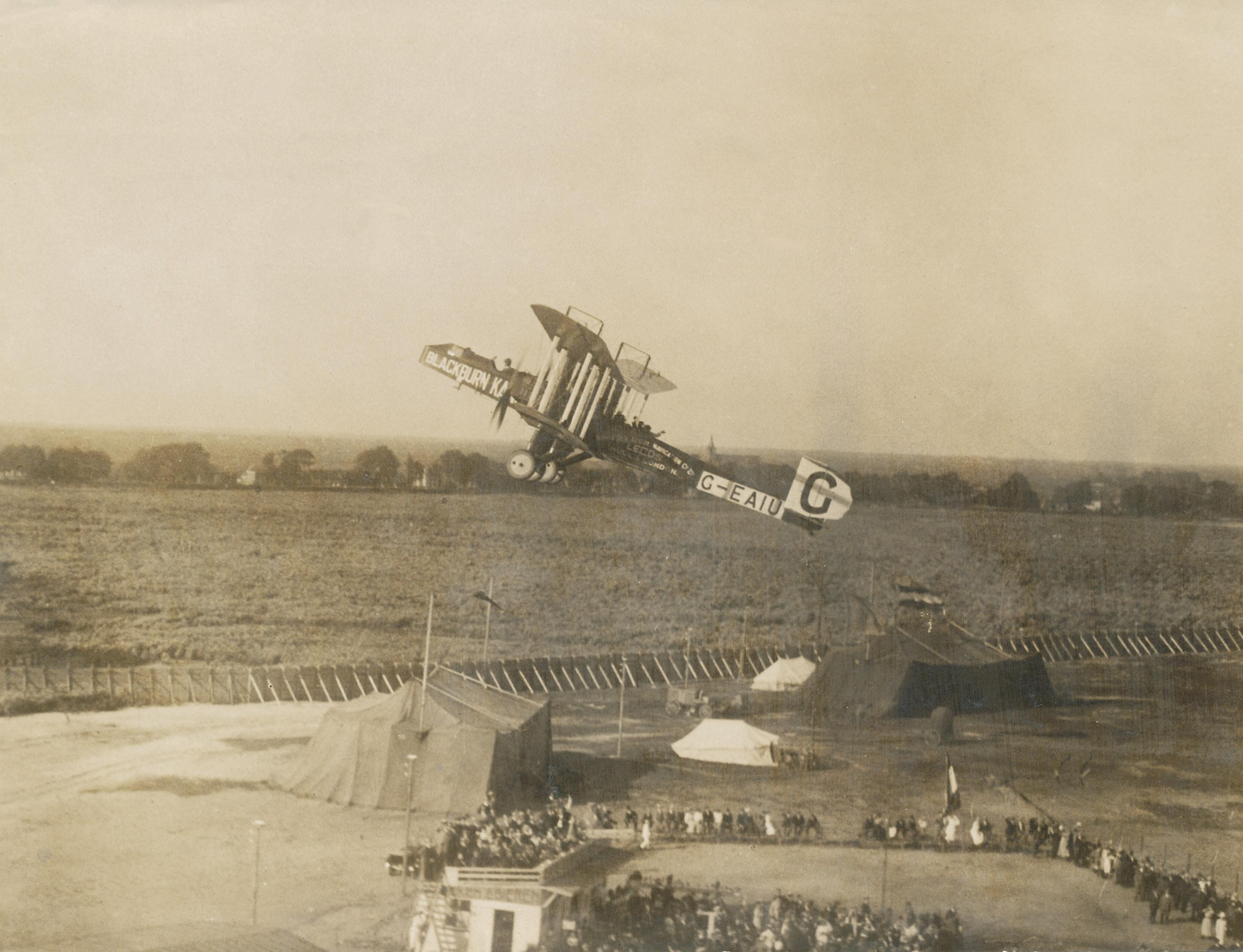 Blackburn Kangaroo G-EAIU from the North Sea Aerial Navigation Co Ltd at the E.L.T.A amsterdam 1919. Eerste Luchtverkeer Tentoonstelling Amsterdam ELTA, aug-sep 1919